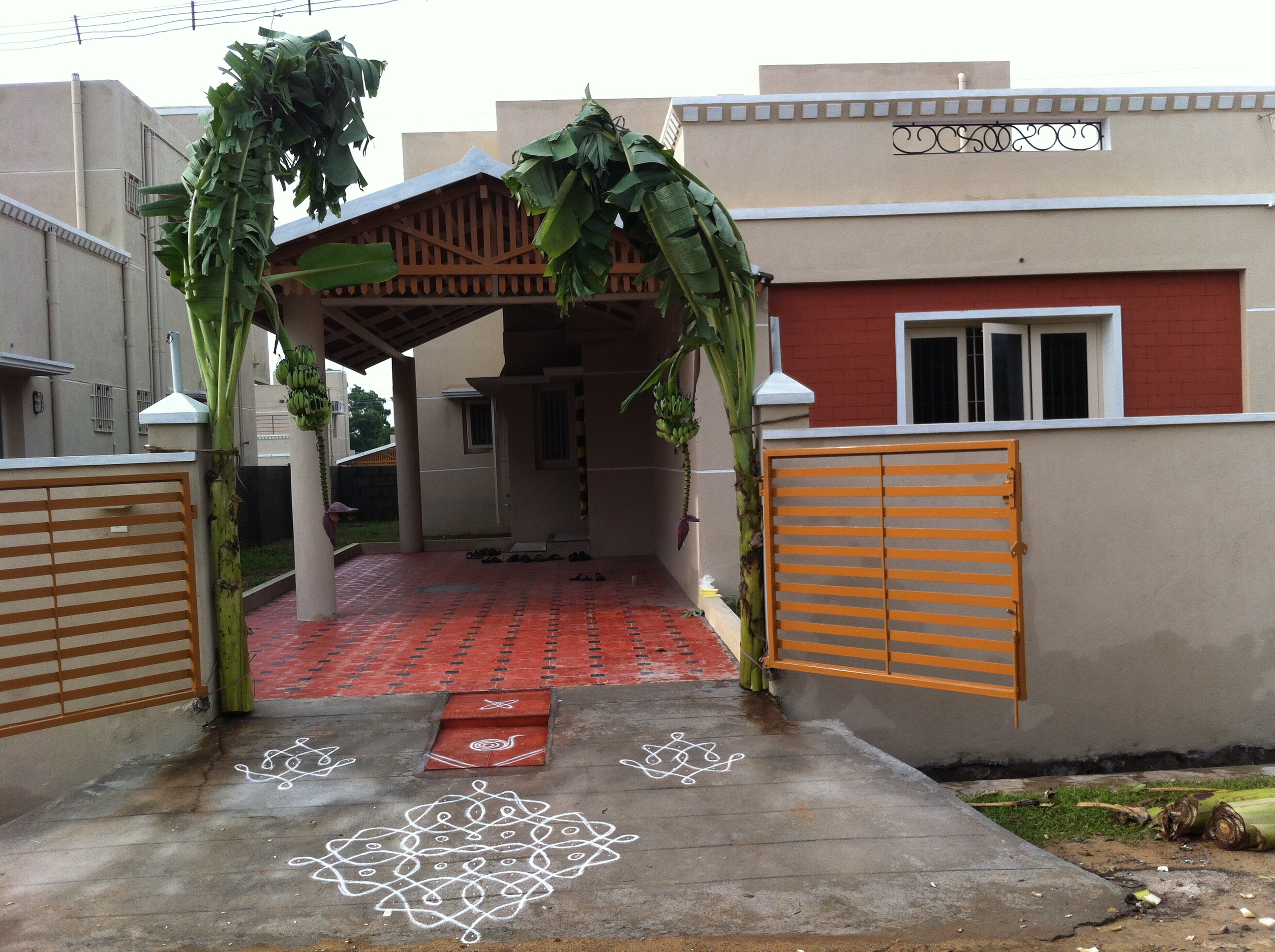 Kolam in front of the House during House warming in Tamil Nadu